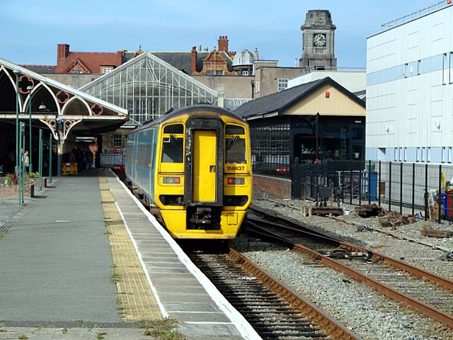 Arrival at Aberystwyth A train from Birmingham has just arrived at the single platform terminus at Aberystwyth.